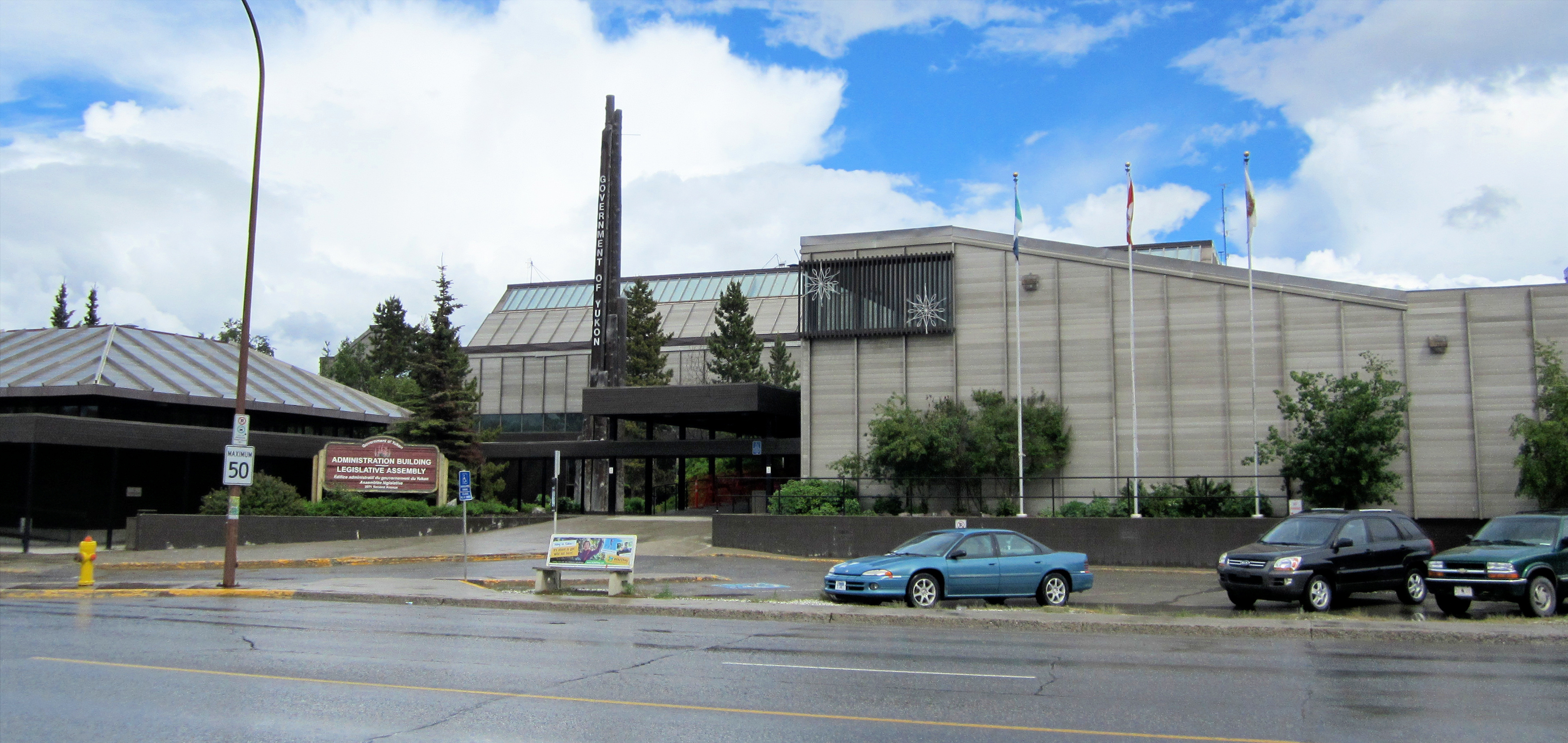 Yukon Legislative Building